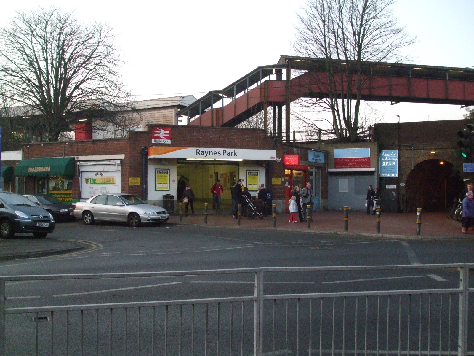 Raynes Park station southern entrance, on the westbound side